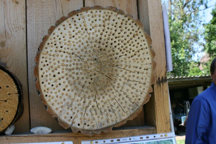 Tree disc with holes for solitary bees